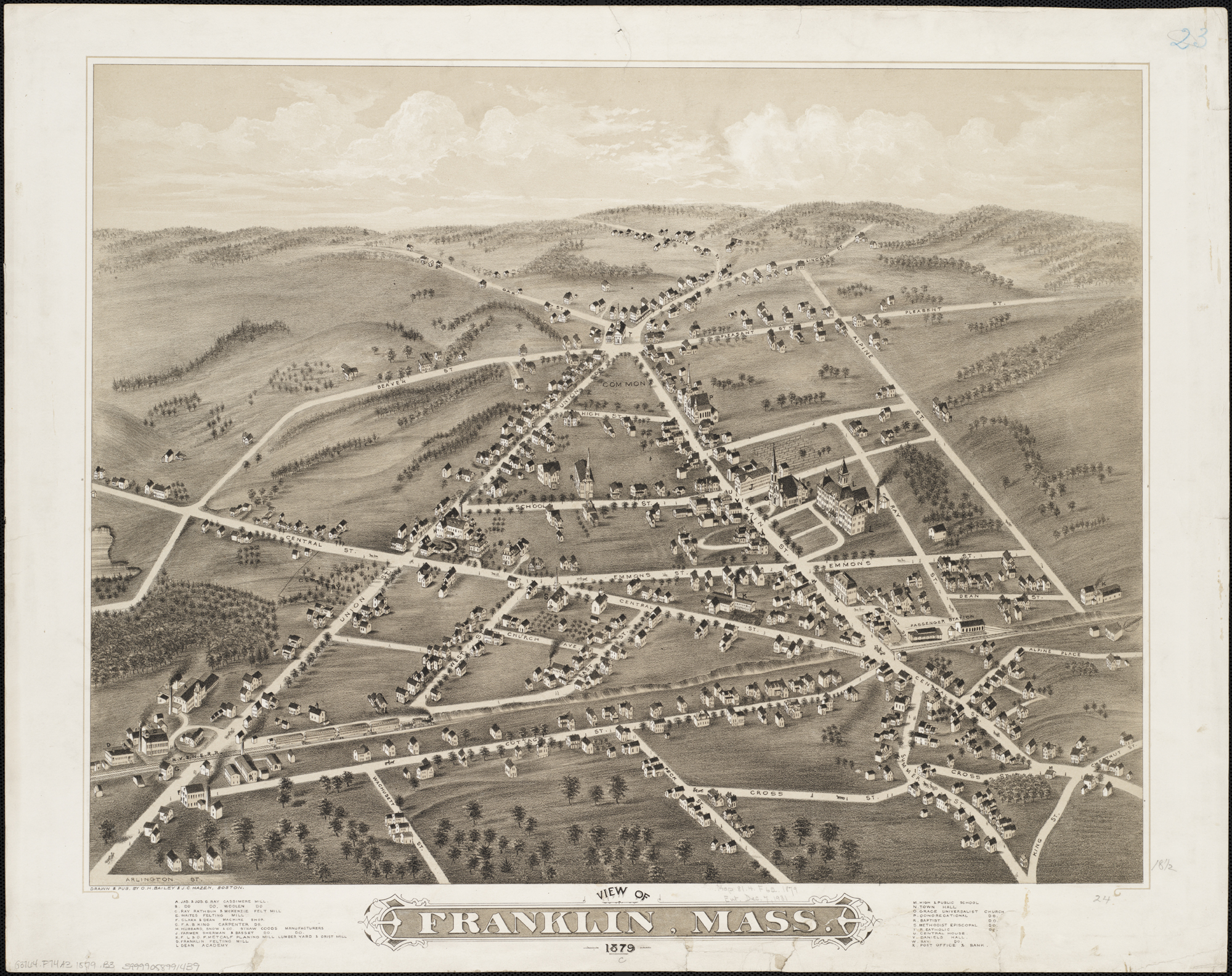 1879 map of Franklin, Massachusetts. Author: Bailey, O. H. Publisher: Bailey & Hazen Date: 1879. Location: Franklin (Mass.) Scale: Not drawn to scale.